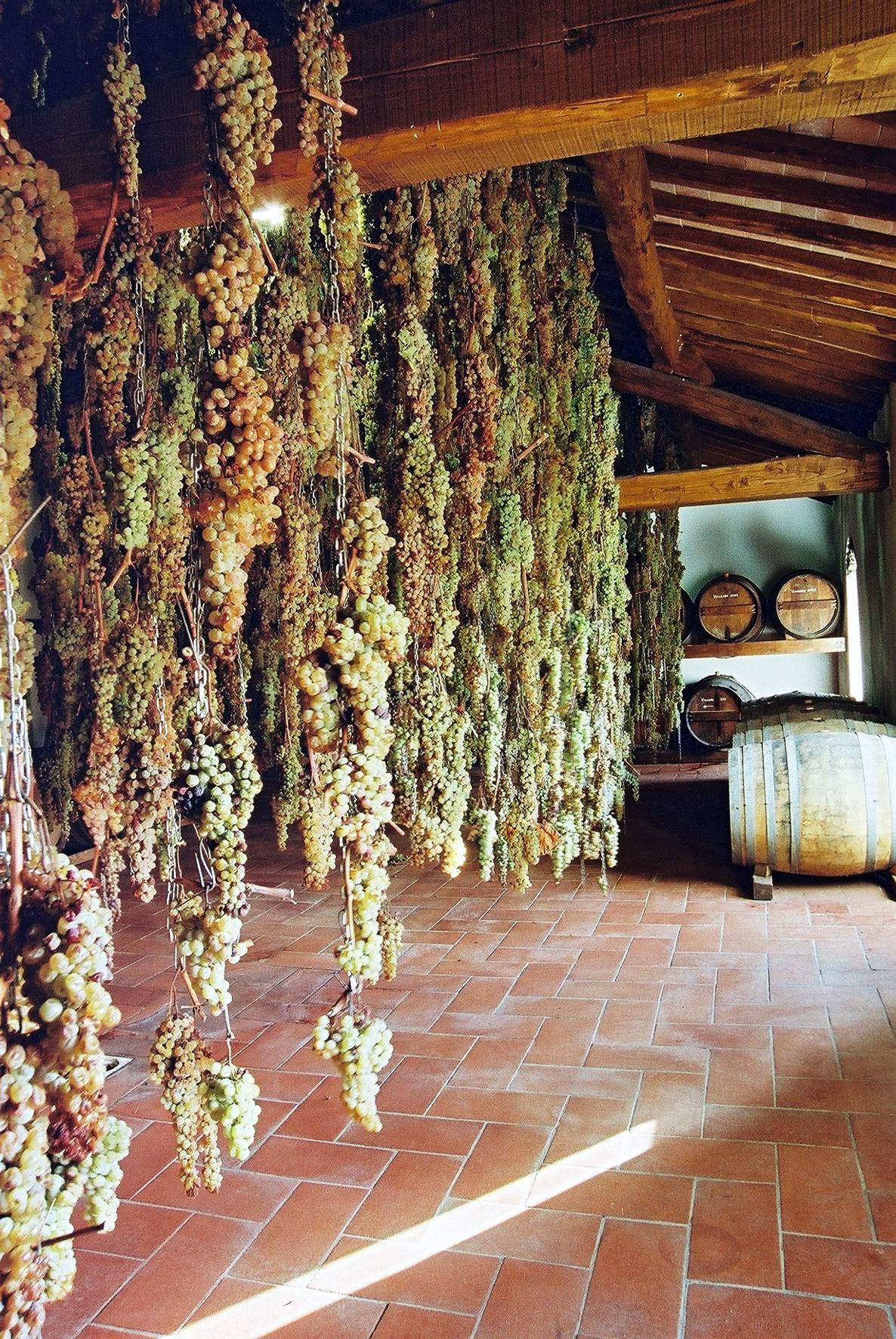 Vinsantaia with trebbiano and malvasia drying at Volpaia